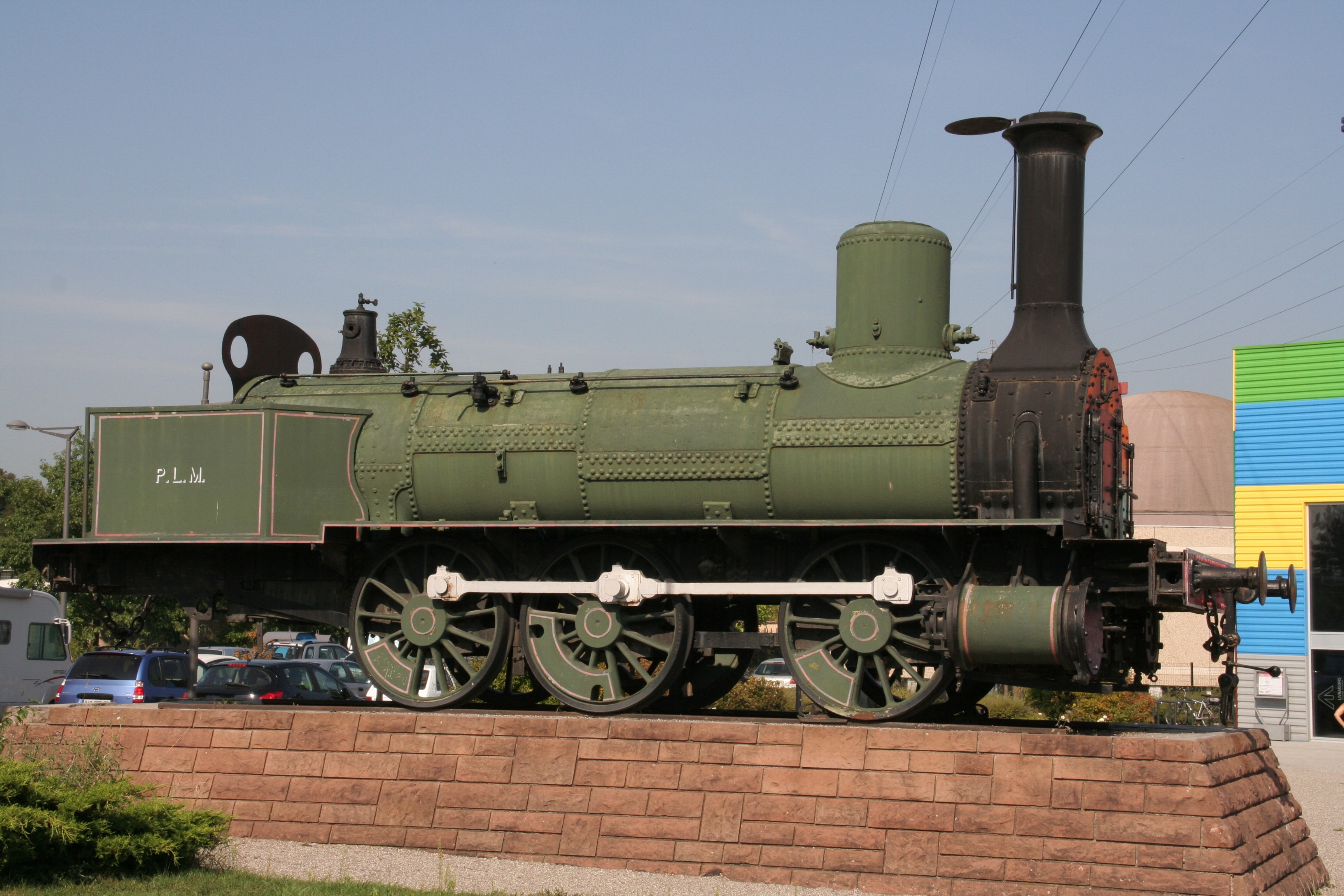 Steam locomotive "Bourbonnais type" of the PLM in the "Cité du Train" in Mulhouse, France.